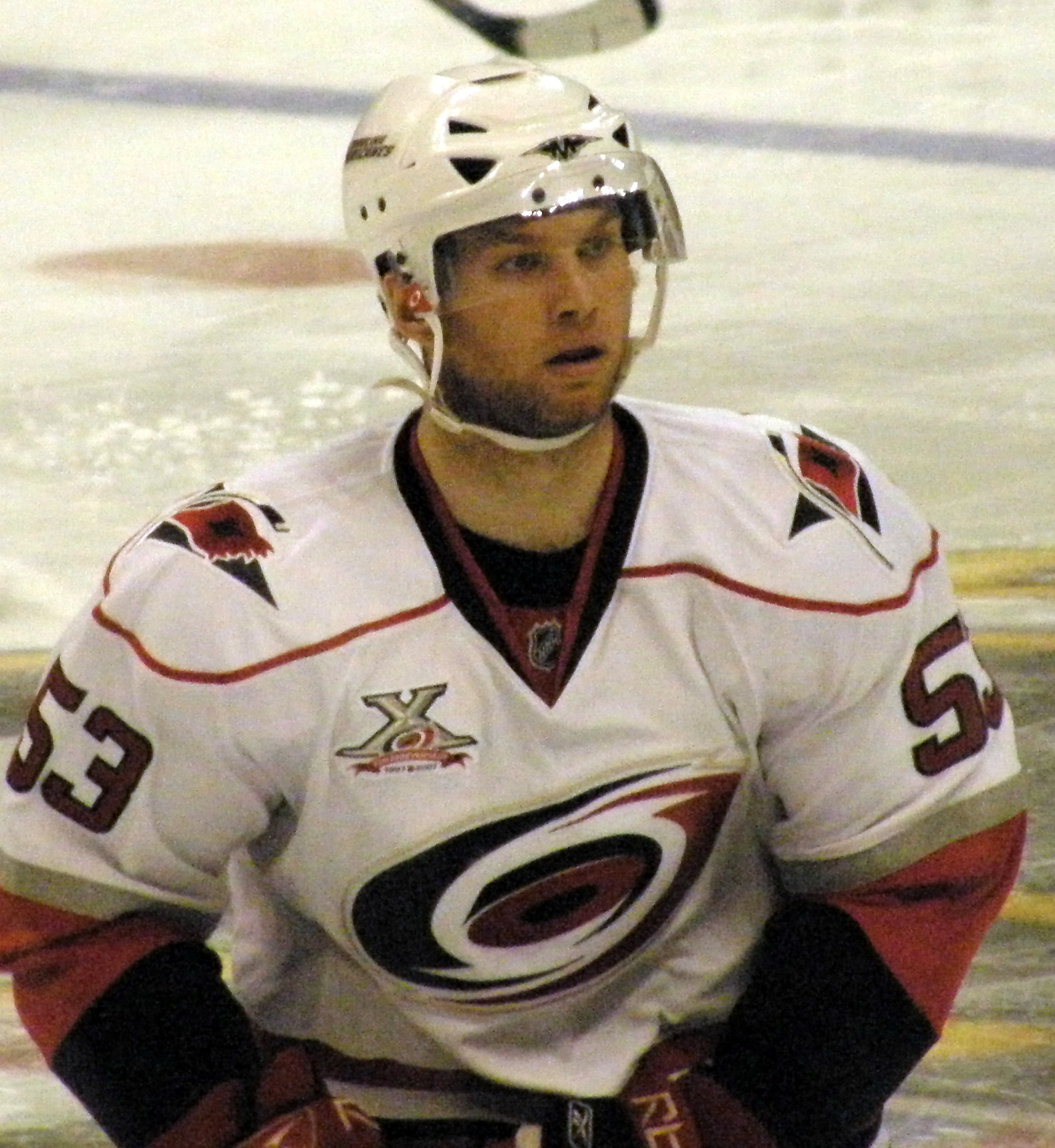 53 Casey Borer (D)